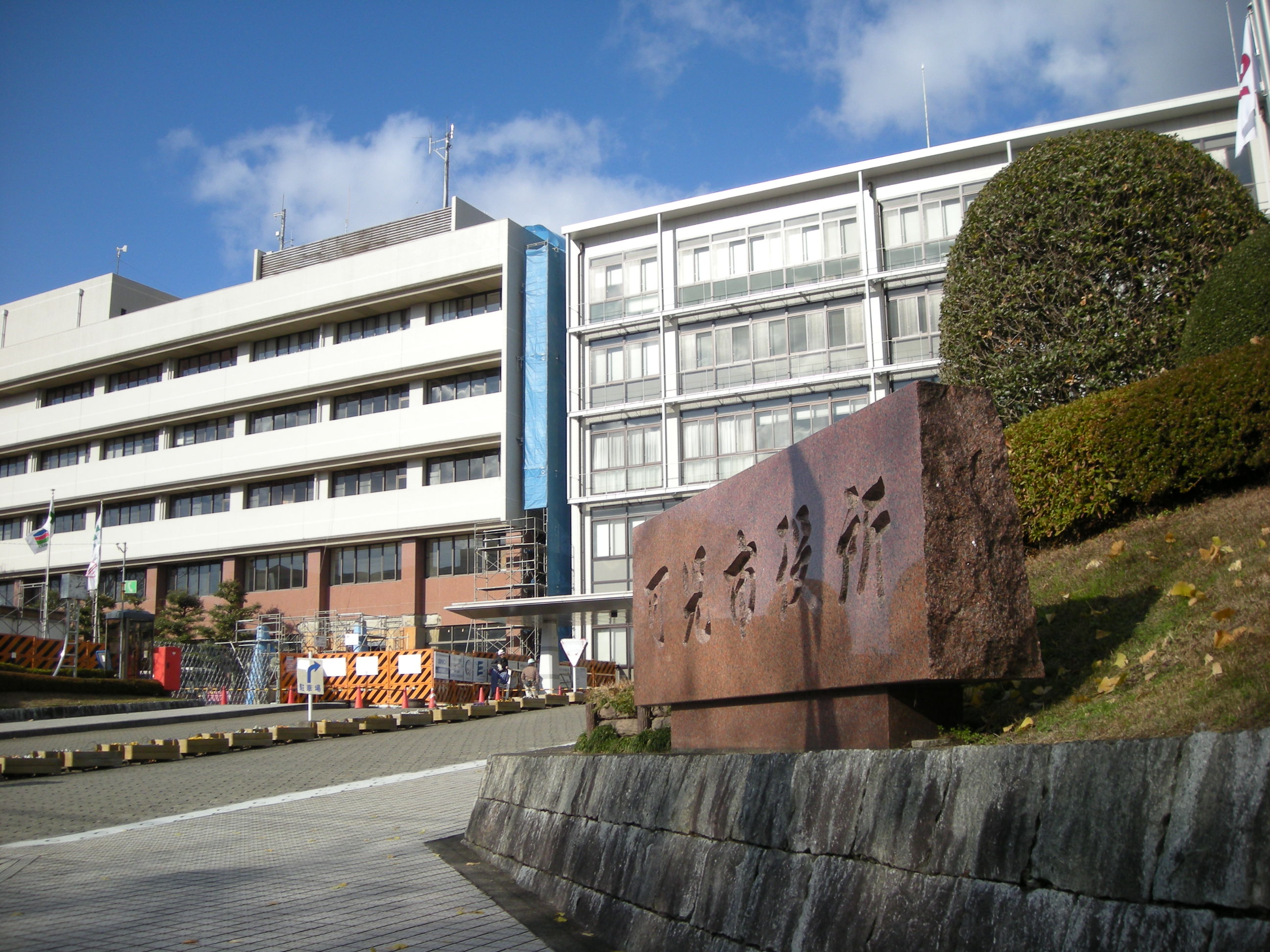 Kani city hall, Kani, Gifu Prefecture, Japan